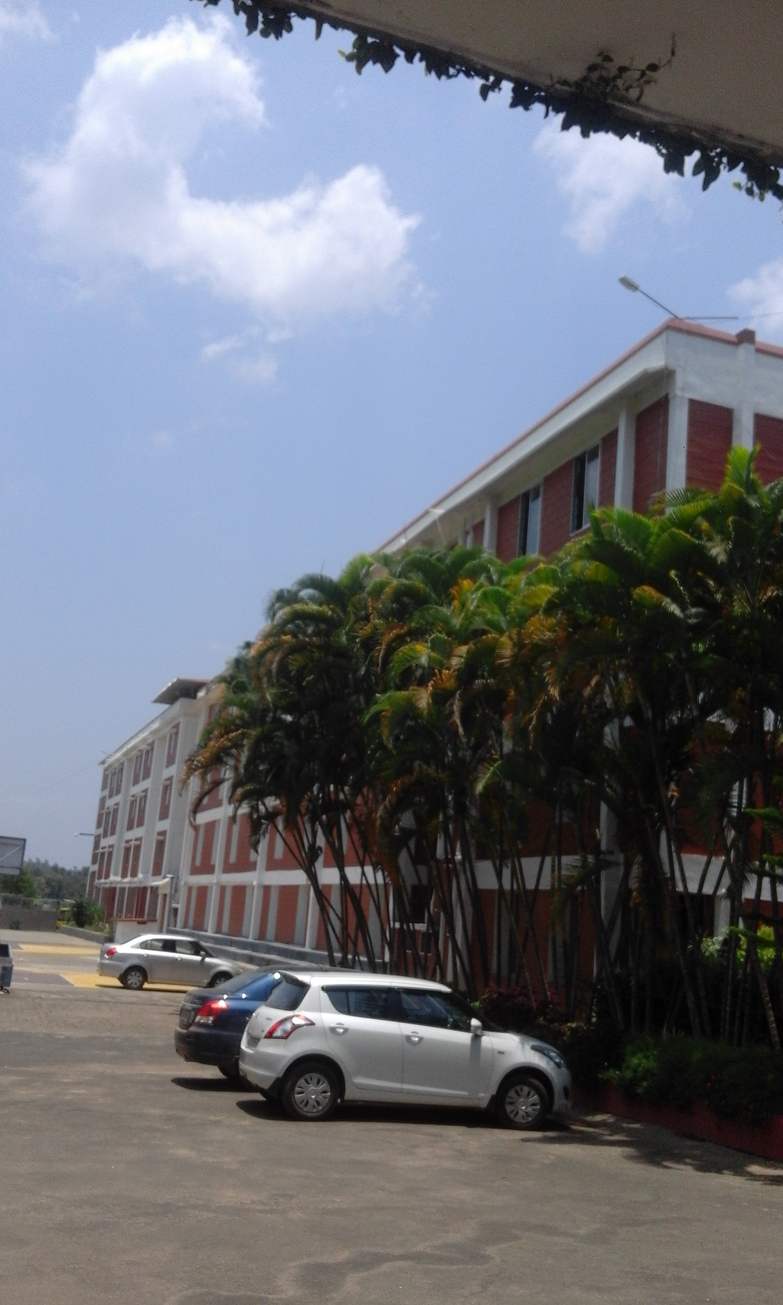 Mysore city, Karnataka province, India.